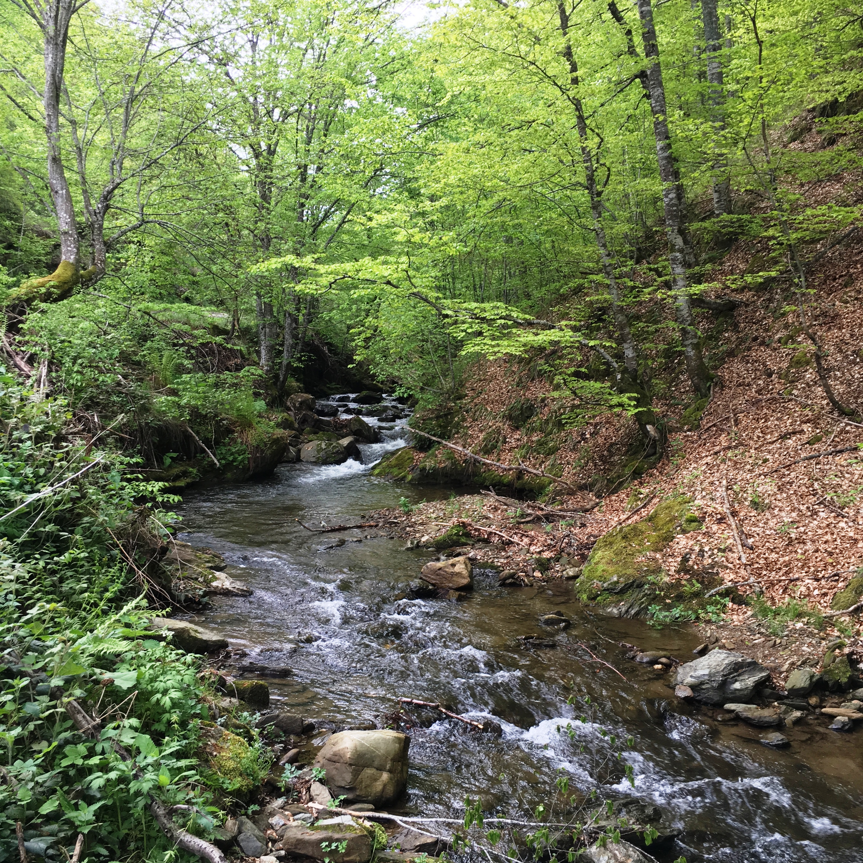 Gradečka River, Macedonia.